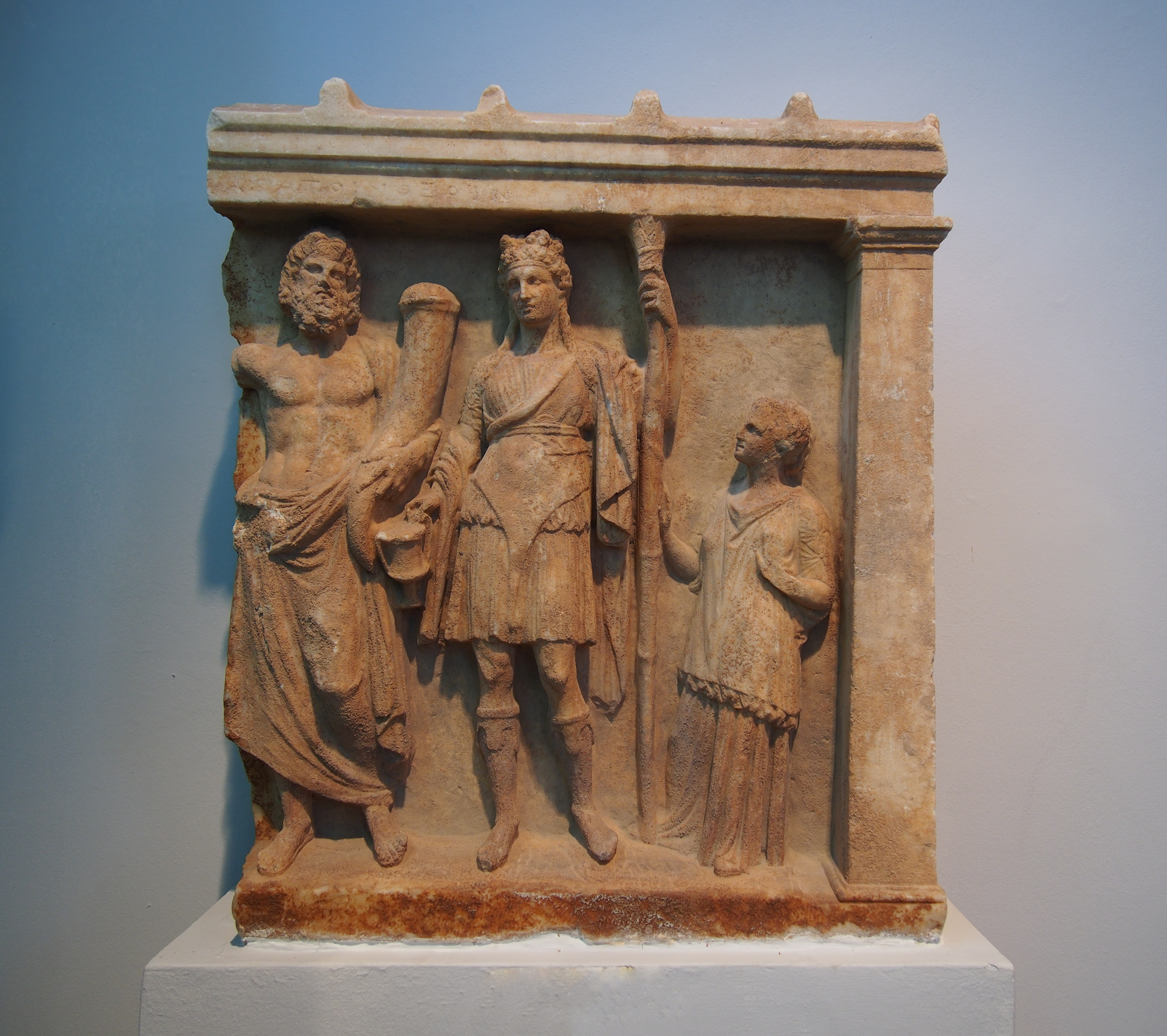 Votive relief with the God Dionysos and Pluto. 4th century BC. From Karystos, now exhibited at the Archaeological museum of Chalkida.